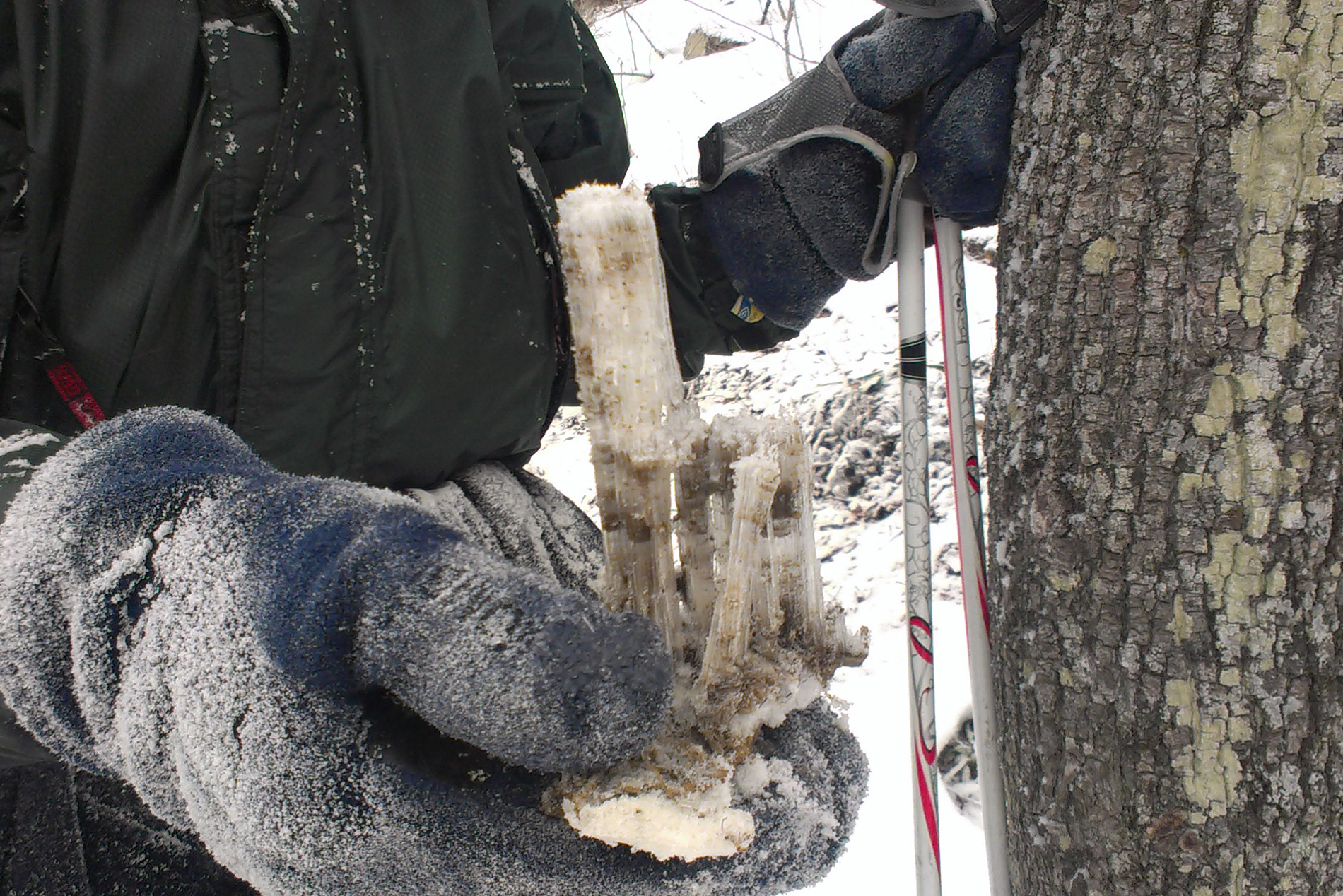 tall Ice needles, after 1 week of anomaly hot weather in Quebec, a -20 Celsius degree drop have created this huge 2 levels very large ice needles.